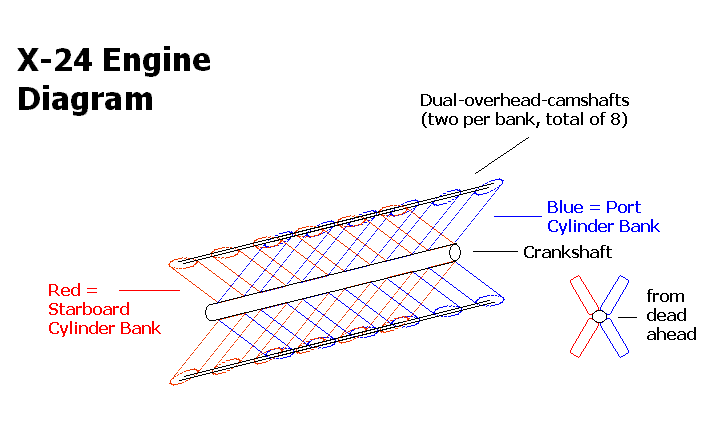 The X24 engine has a total of 24 cylinders connected to the same crankshaft.